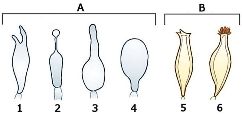 Cystidia, fungal structures. A — thin-walled, B — thick-walled; 1 — bifid, 2 — tibiiform, 3 — lanceolate, 4 — pyriform, 5 — lamprocystidium, 6 — encrustated metuloid